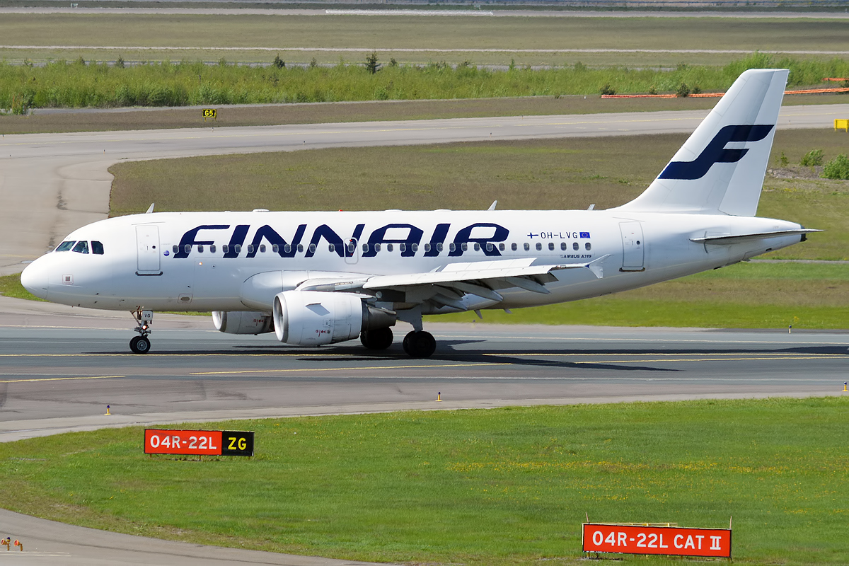 Finnair, OH-LVG, Airbus A319-112